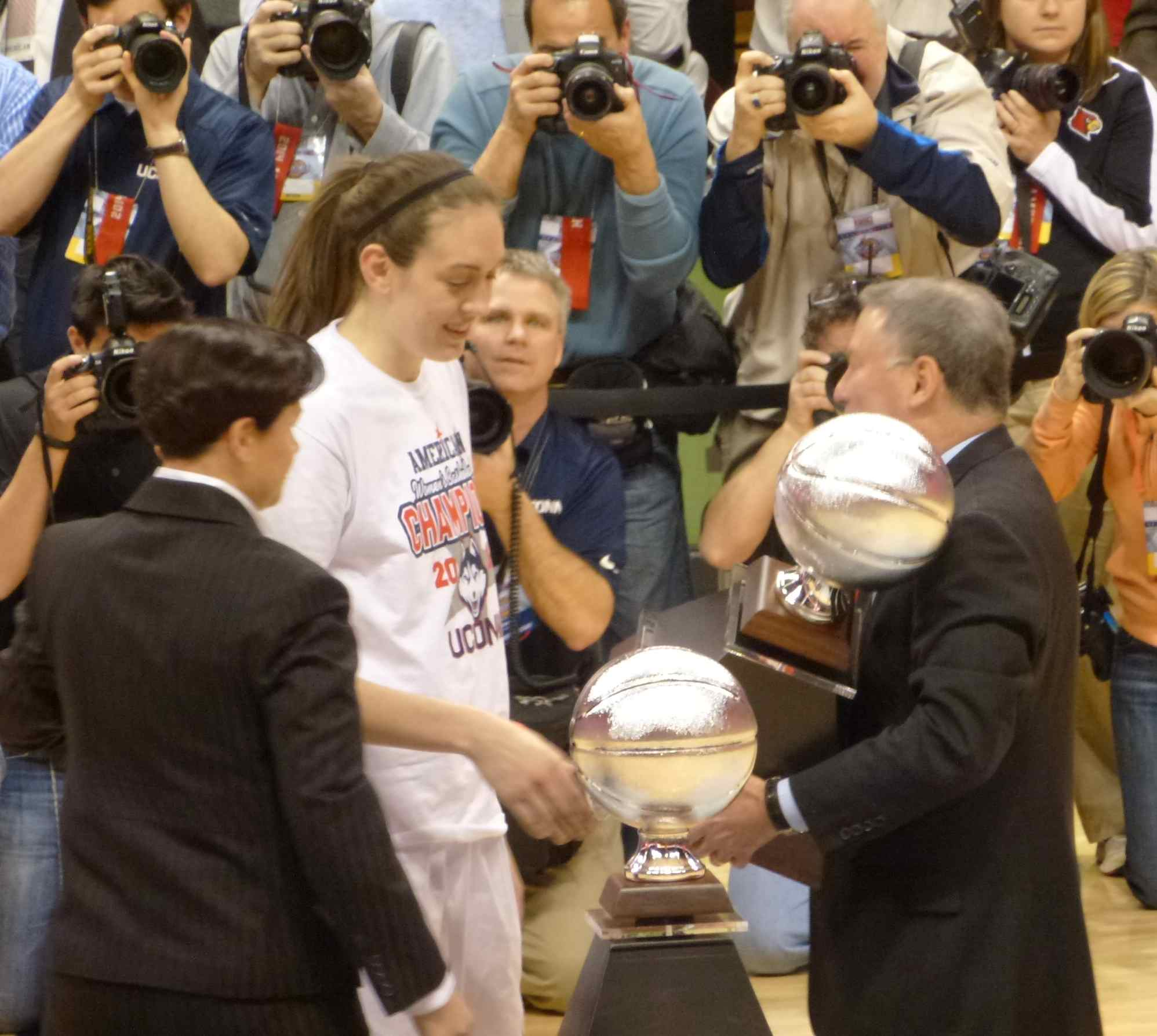 Breanna Stewart wins AAC Tournament Most Outstanding Player award. Tournament held at the Mohegan Sun 10 March 2014